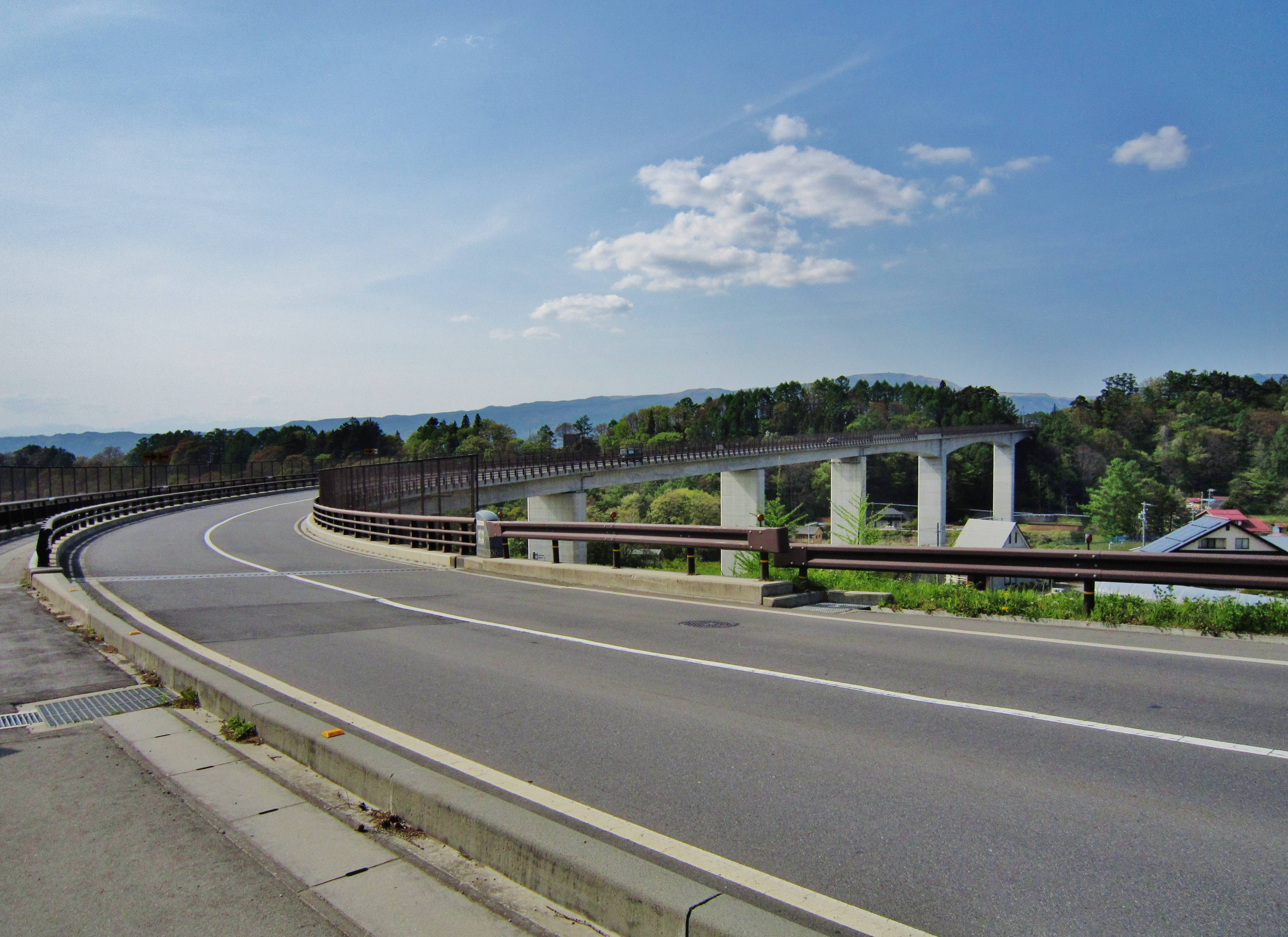 Yatsugatake Echo Line Tsunotsuki Ōhashi Bridge.